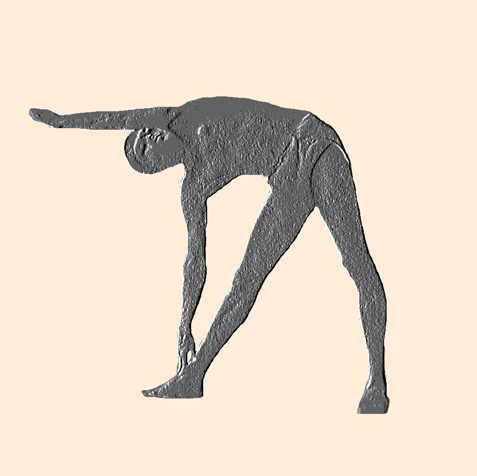 Trikoṇāsana ◦ Triangle I yoga āsana. This image-processed file is not compliant with the WikiProject Yoga image guidelines and must not be used in any Wikipedia Yoga article.